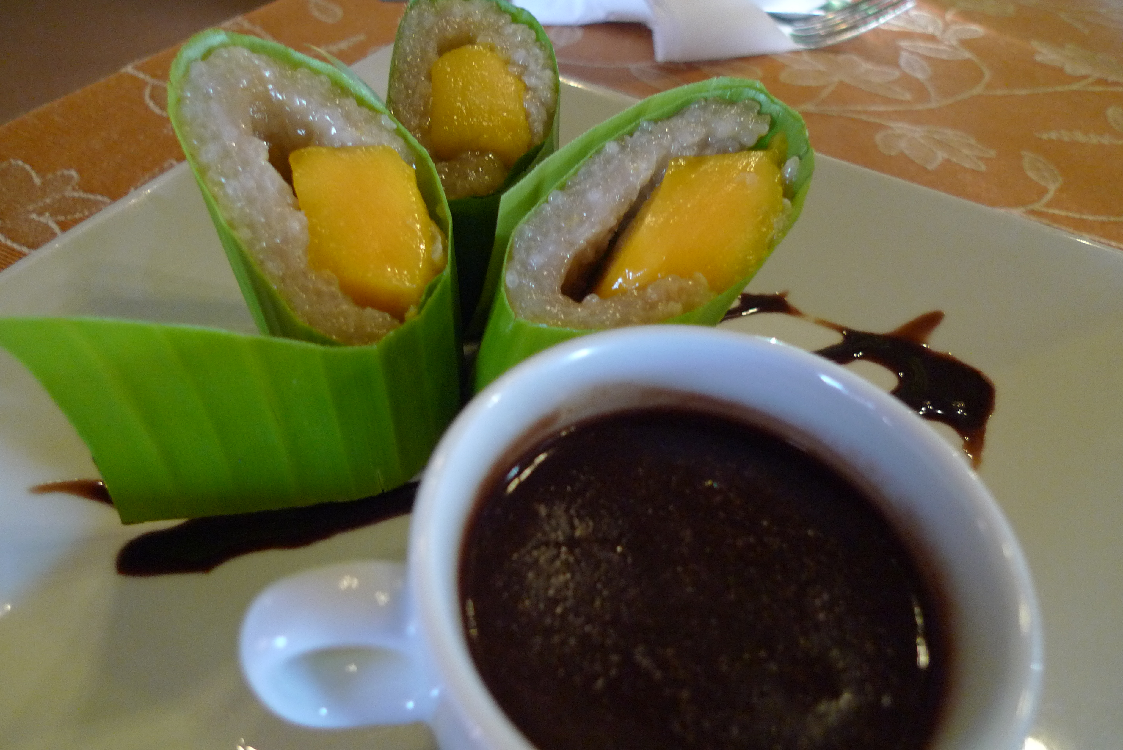 Tagaytay - Nurture Spa Suman at Tsokolate